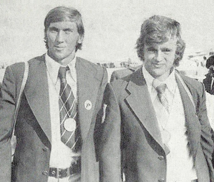 Larion Serghei and Policarp Malîhin, 1976 Olympics